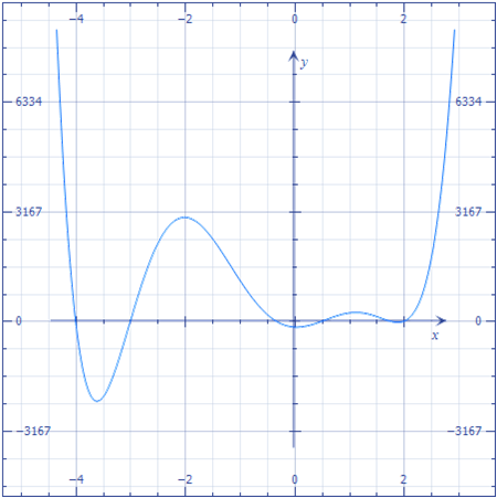 Sextic equation on 24x^6+74x^5-275x^4-462x^3+1133x^2-86x-168